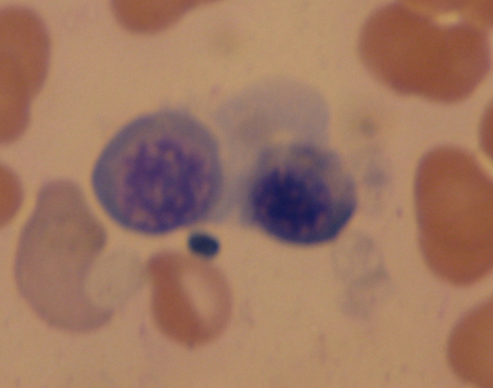 Polychromatic normoblast from a Bone marrow examination (40x).